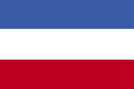 Flag with three horizontal stripes: blue-white-red